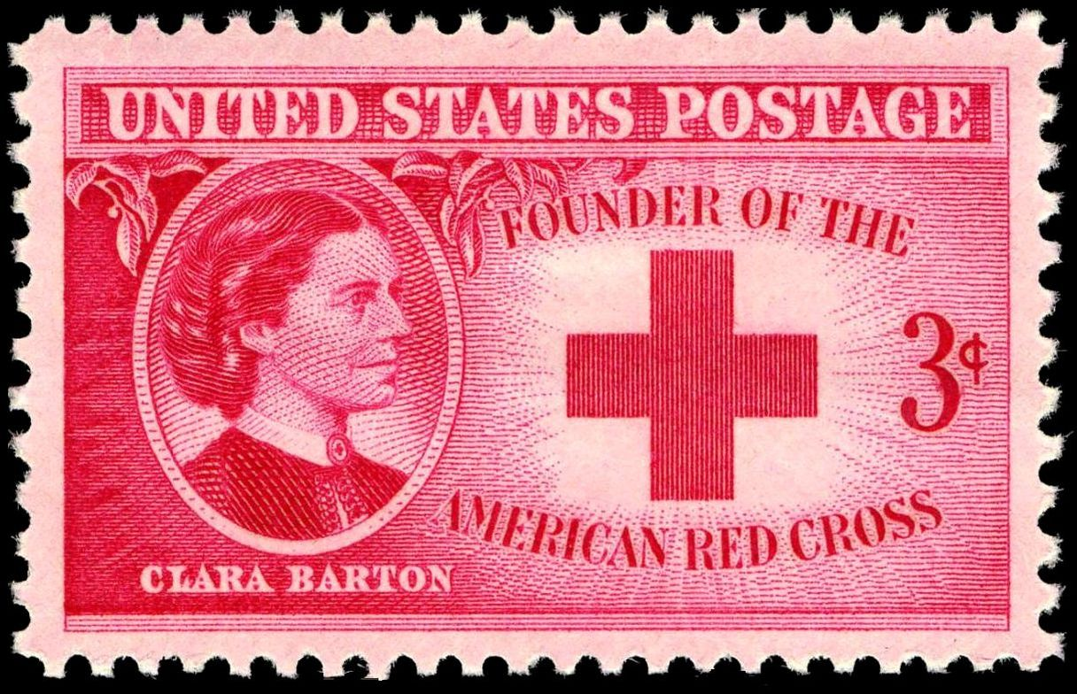 Image of Clara Barton commemorative stamp, issue of 1948